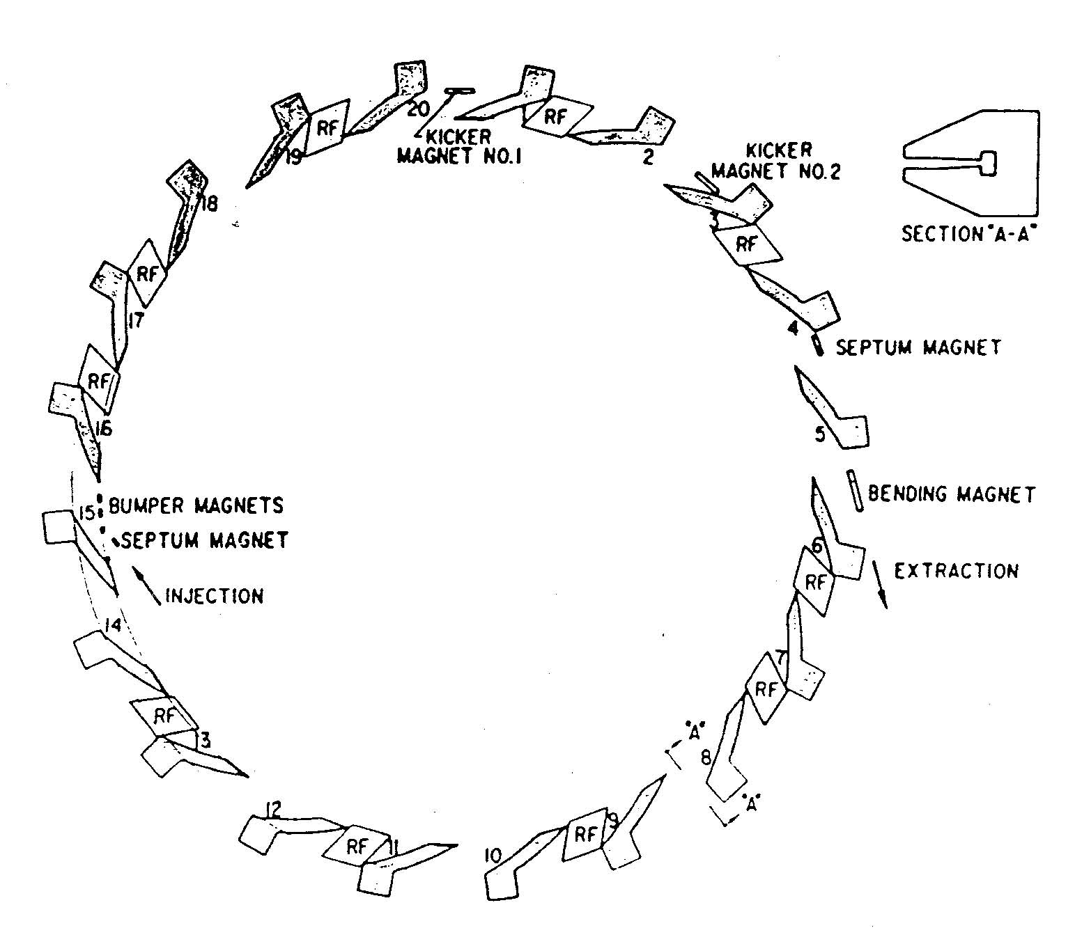 sketch of proposed accelerator accelerator